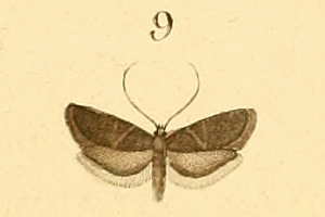 Lecithocera nigrana